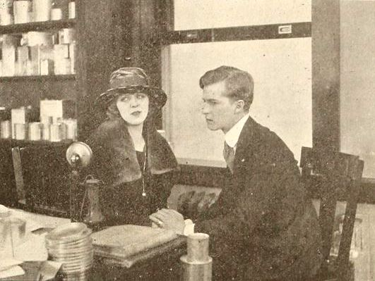 Still from the American comedy film Be a Little Sport (1919) with Elinor Fair and Albert Ray, on page 717 of the July 19, 1919 Motion Picture News.